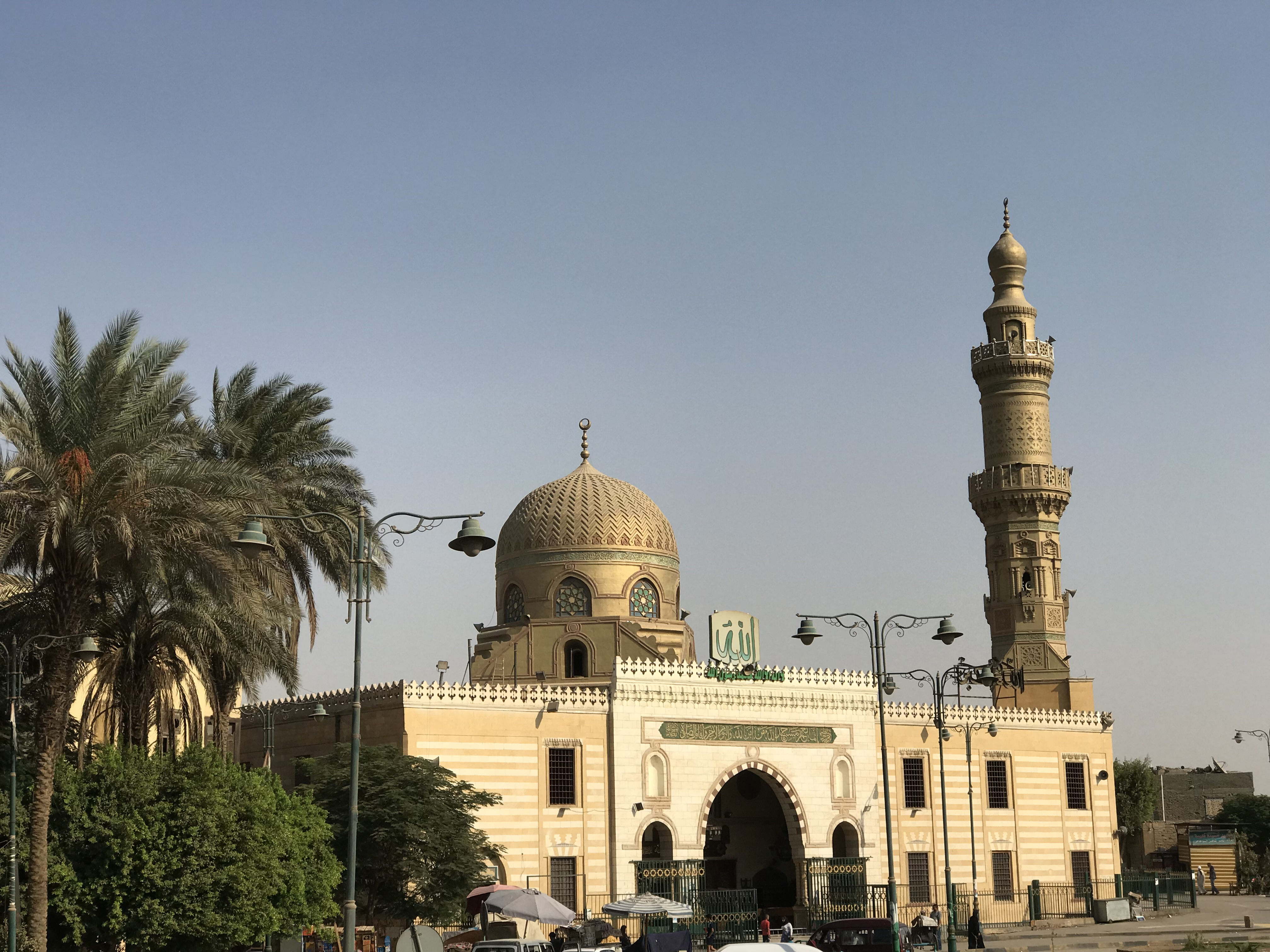 Sayidah Nafisah Mosque in Egypt